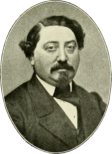 Portrait of the botanist Edouard Timbal-Lagrave